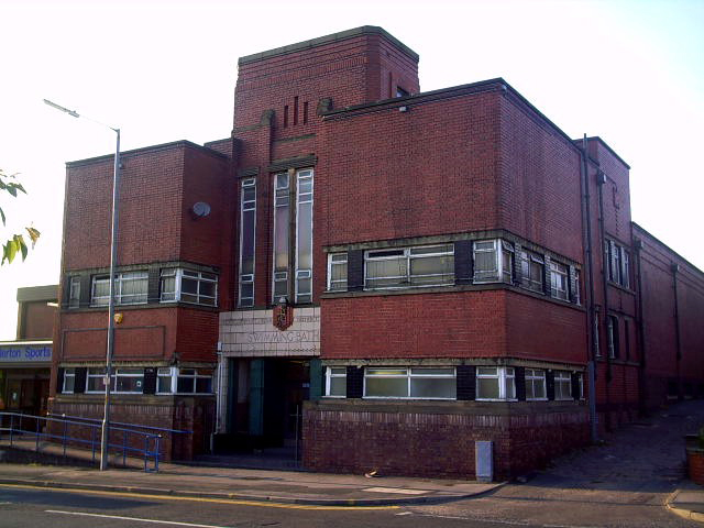 The 1937 built Art Deco Chadderton Baths, in Chadderton, Greater Manchester, England.